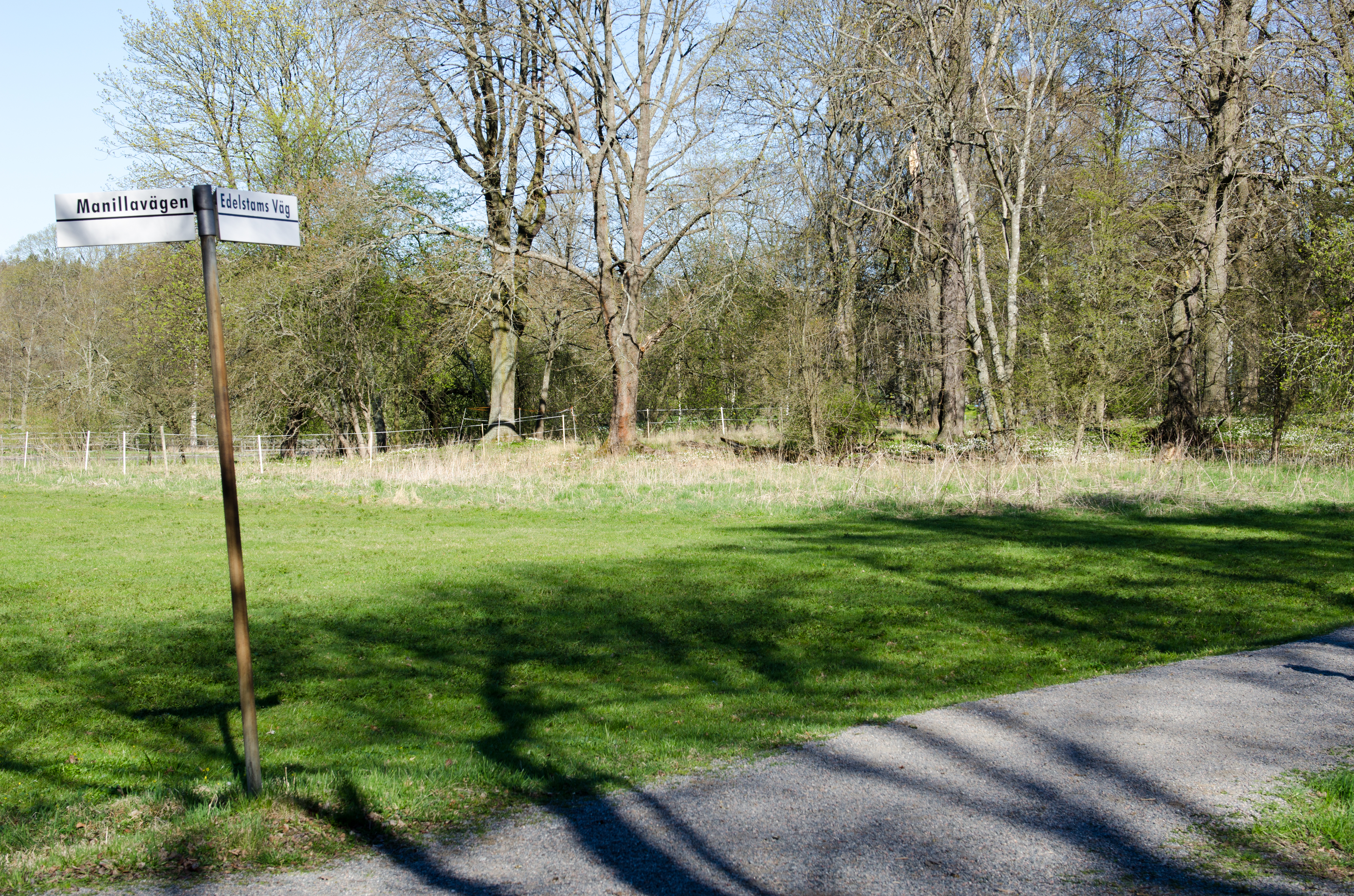 Edelstams väg